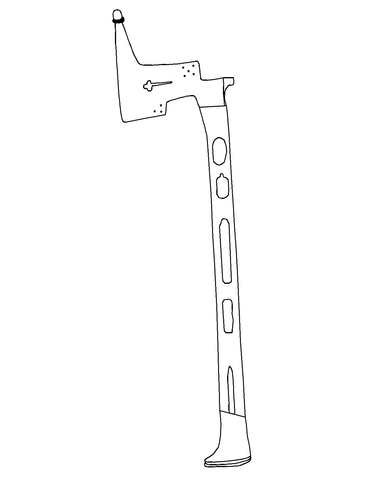 Miner's parade axe.